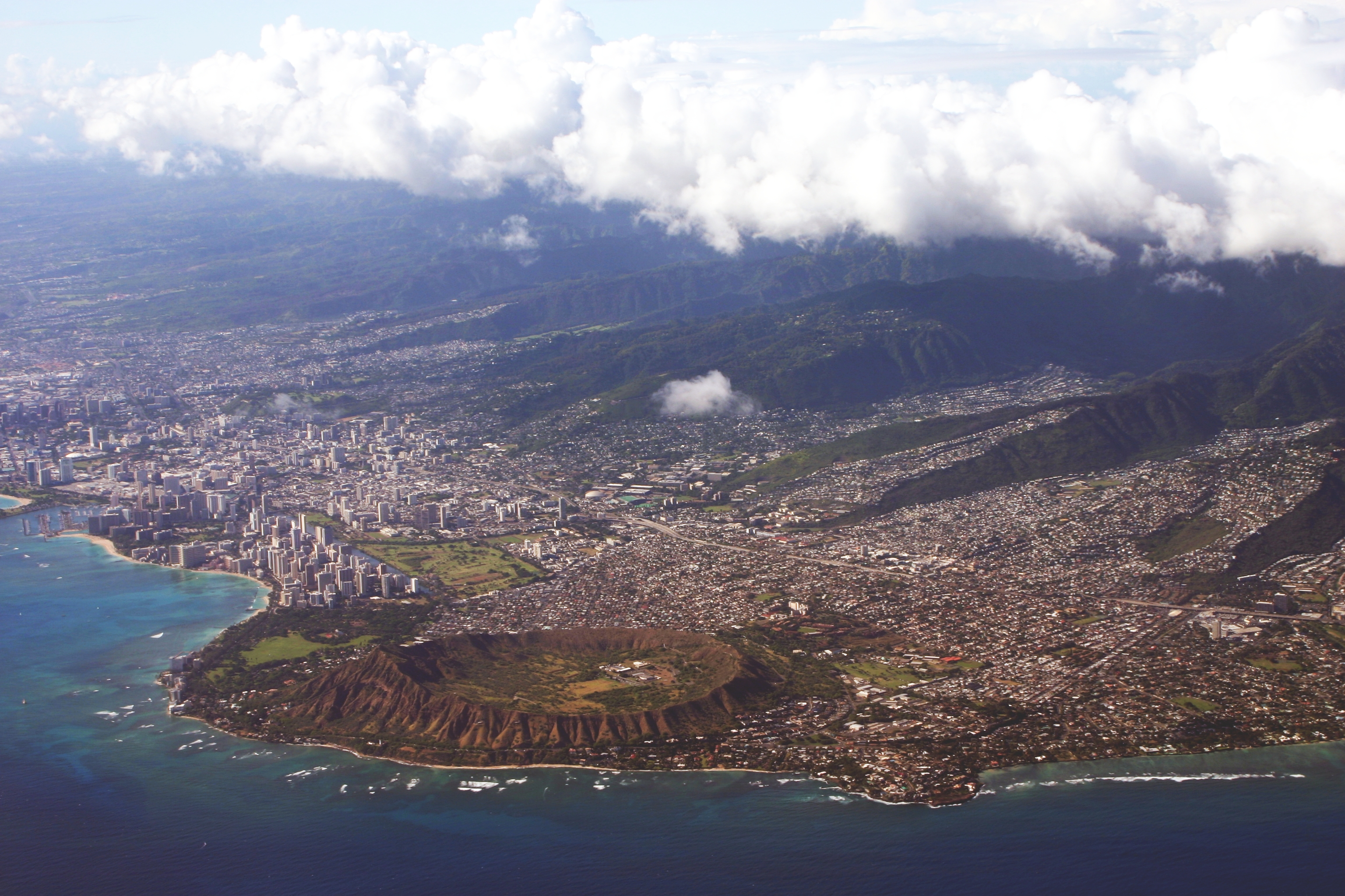 Oahu from the air. Photograped by Brocken Inaglory in September of 2004